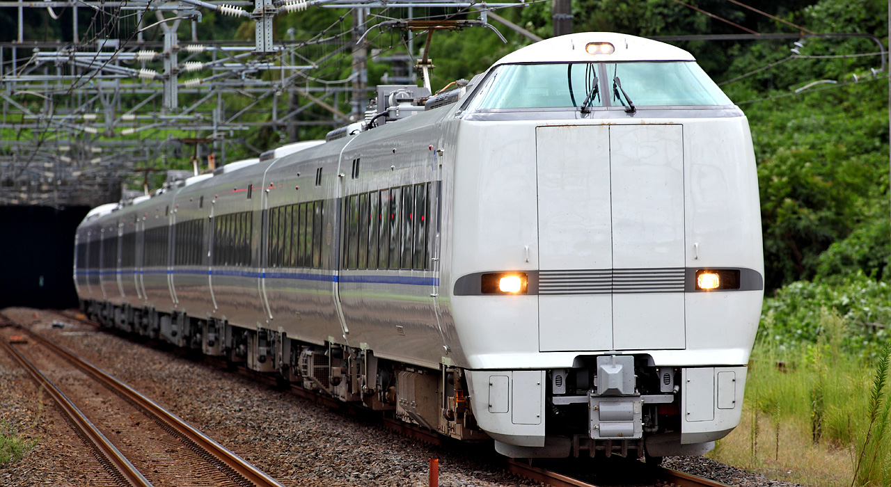 JR West 683-4000 series EMU, at Ogoto-onsen Sta.